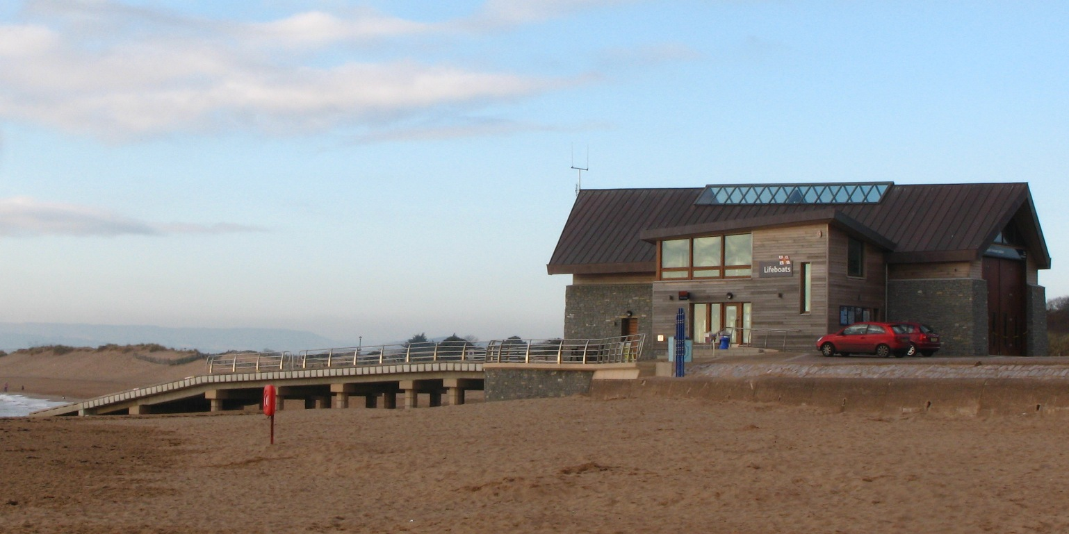 Exmouth Lifeboat Station and slipway at The Maer, looking towards the town.